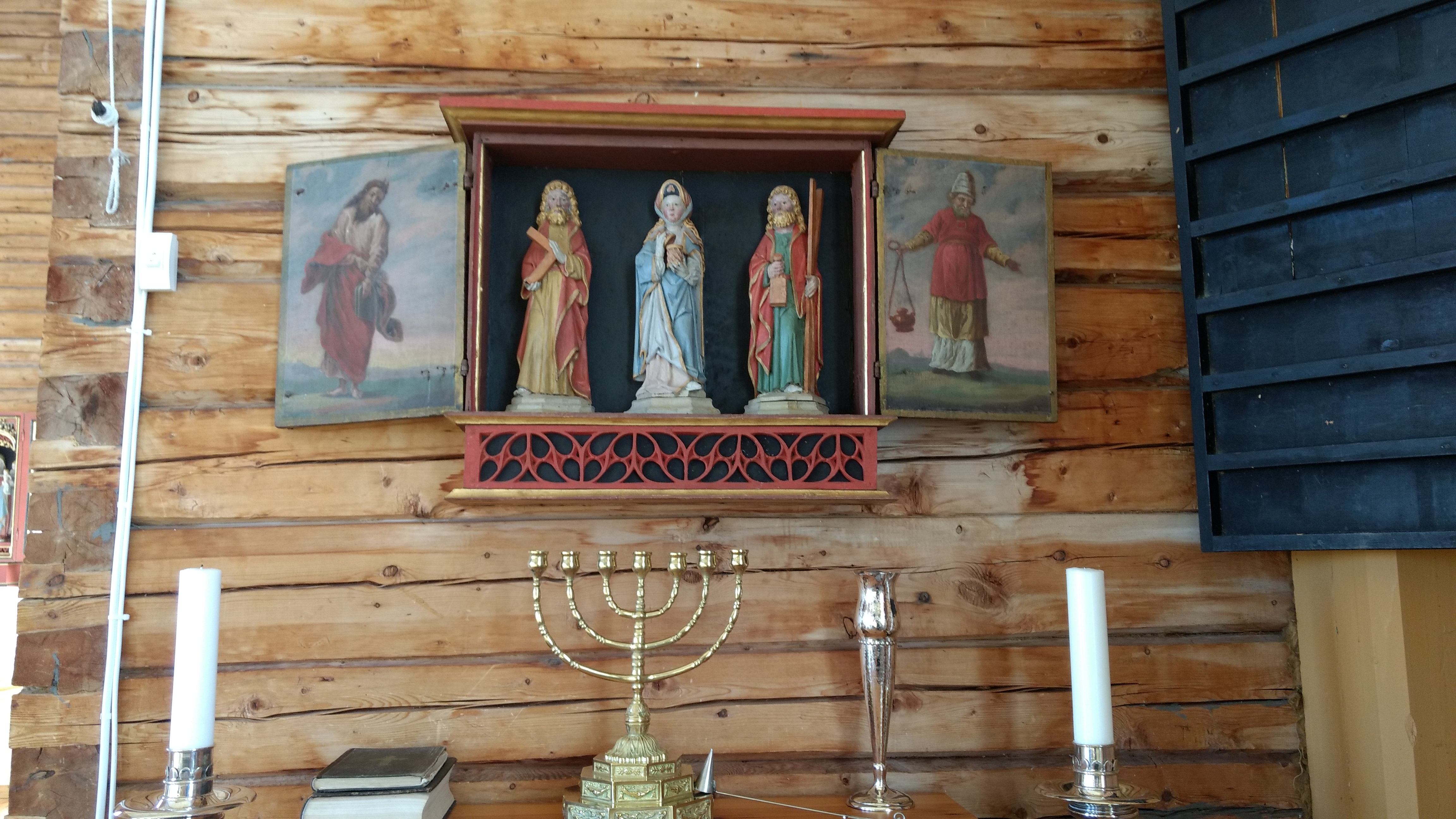 Second altar piece in Hillesøy church. From left: St. Thomas, St. Mary Magdalene, St. Andrew